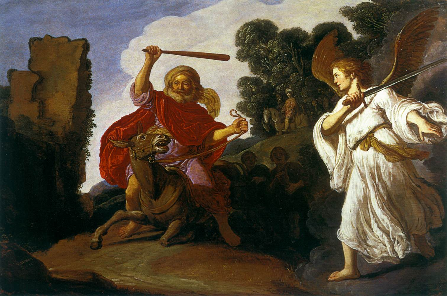 Balaam and his Ass, Pieter Lastman, 1622, oil on panel, 41.3 by 60.3 cm, Israel Museum, Jerusalem